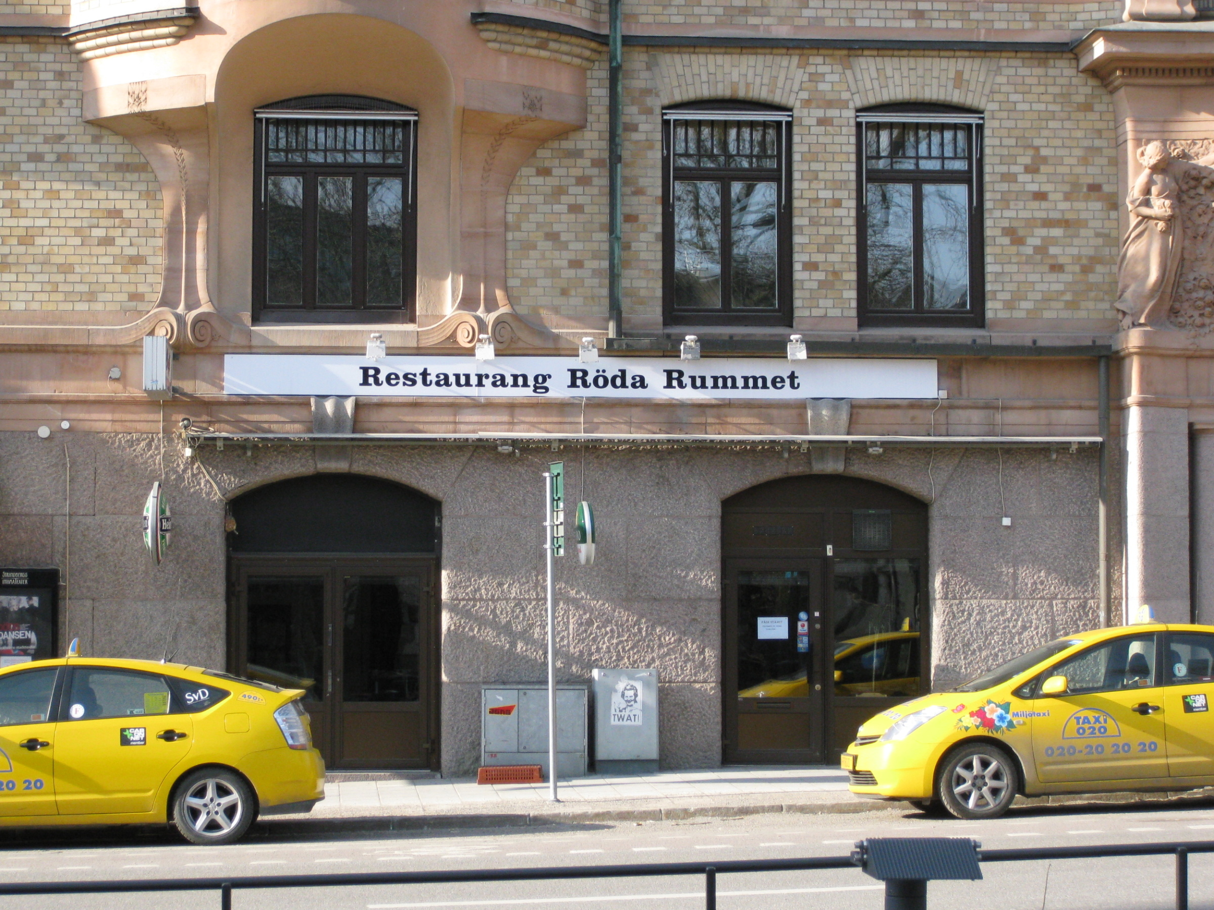 The restaurant Röda Rummet (The Red Room), Stockholm, Sweden.